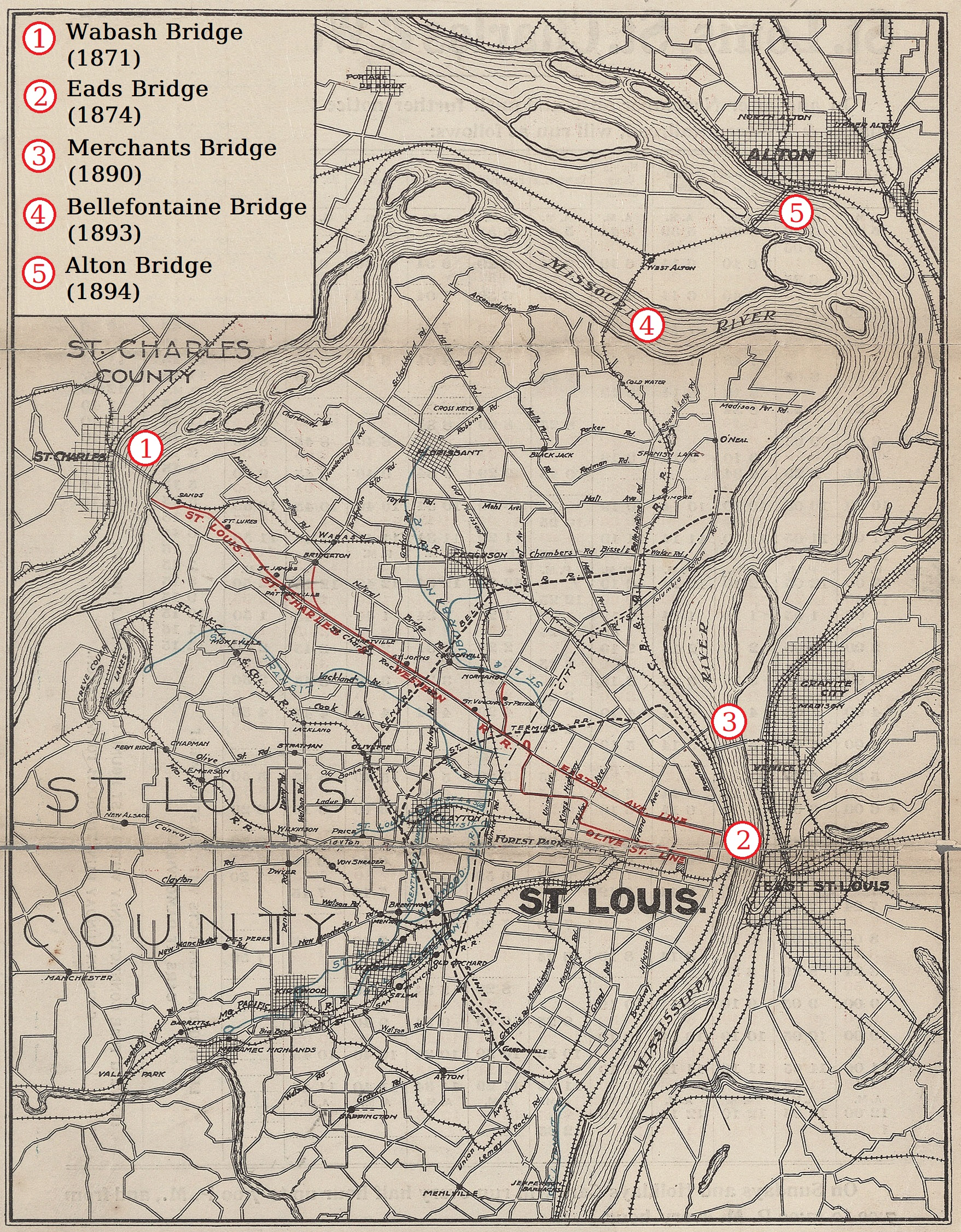 Rail Bridges in St. Louis and Surrounding Area 1910, adopted from a rail map of the St. Louis, St. Charles & Western Railroad